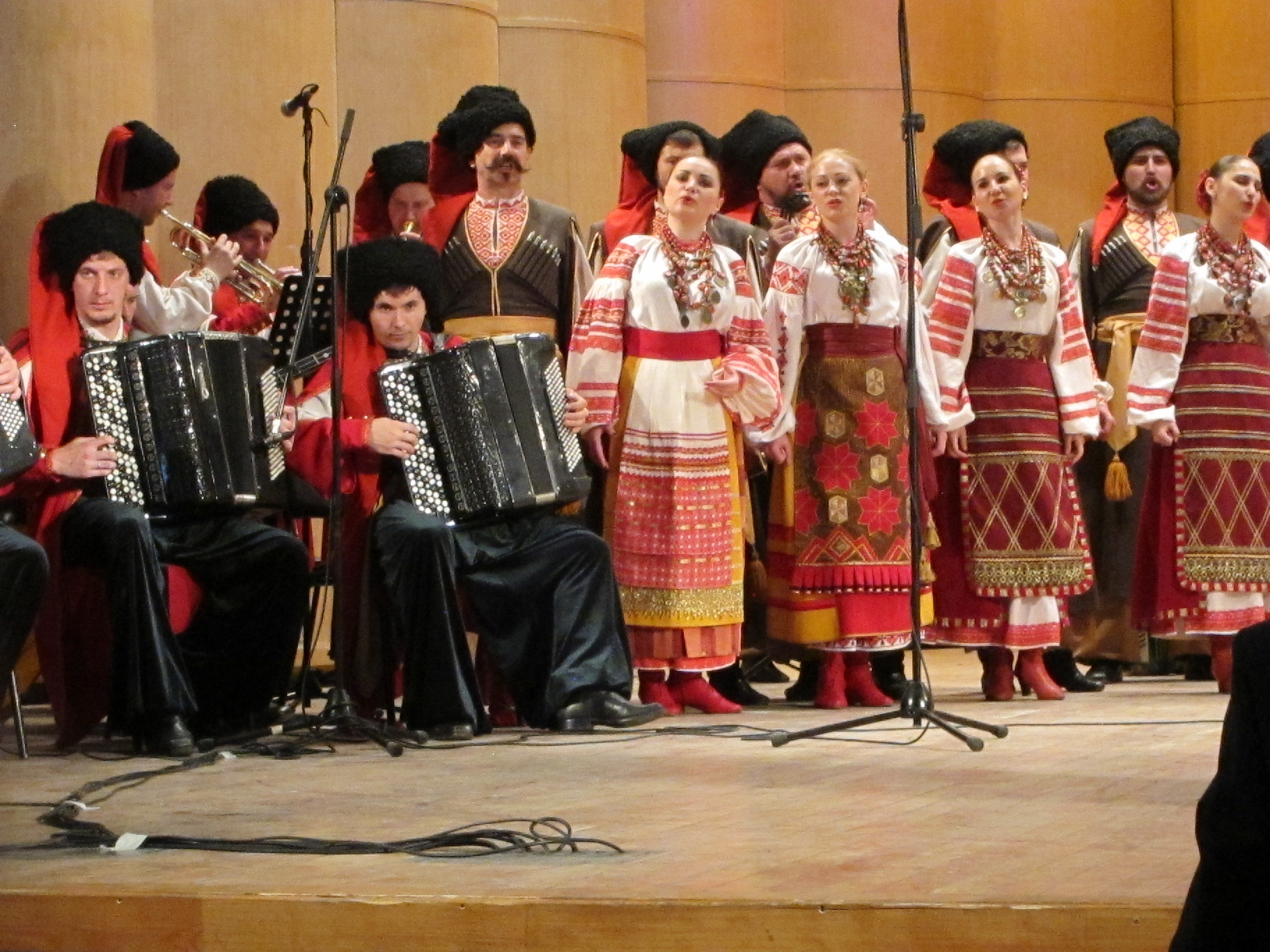 Kuban Cossack Choir at Gnessin Russian Academy of Music in Moscow, directed by Viktor Gavrilovich Zakharchenko.